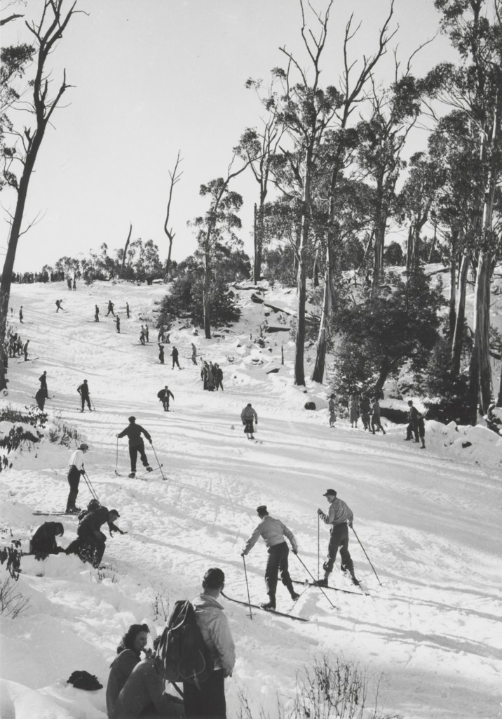 Title devised by cataloguer based on compactus card and other reference sources.; This is a copy made by the National Library of Australia. Location of original unknown.; Published in: A sporting nation : celebrating Australia's sporting life. Canberra, National Library of Australia, 1999. p. 66 with caption: Slope at Mount Donna Buang, east of Melbourne 1947.; Also available in an electronic version via the Internet at: .au/nla.pic-vn4593206. Persistent URL .au/nla.pic-vn4593206